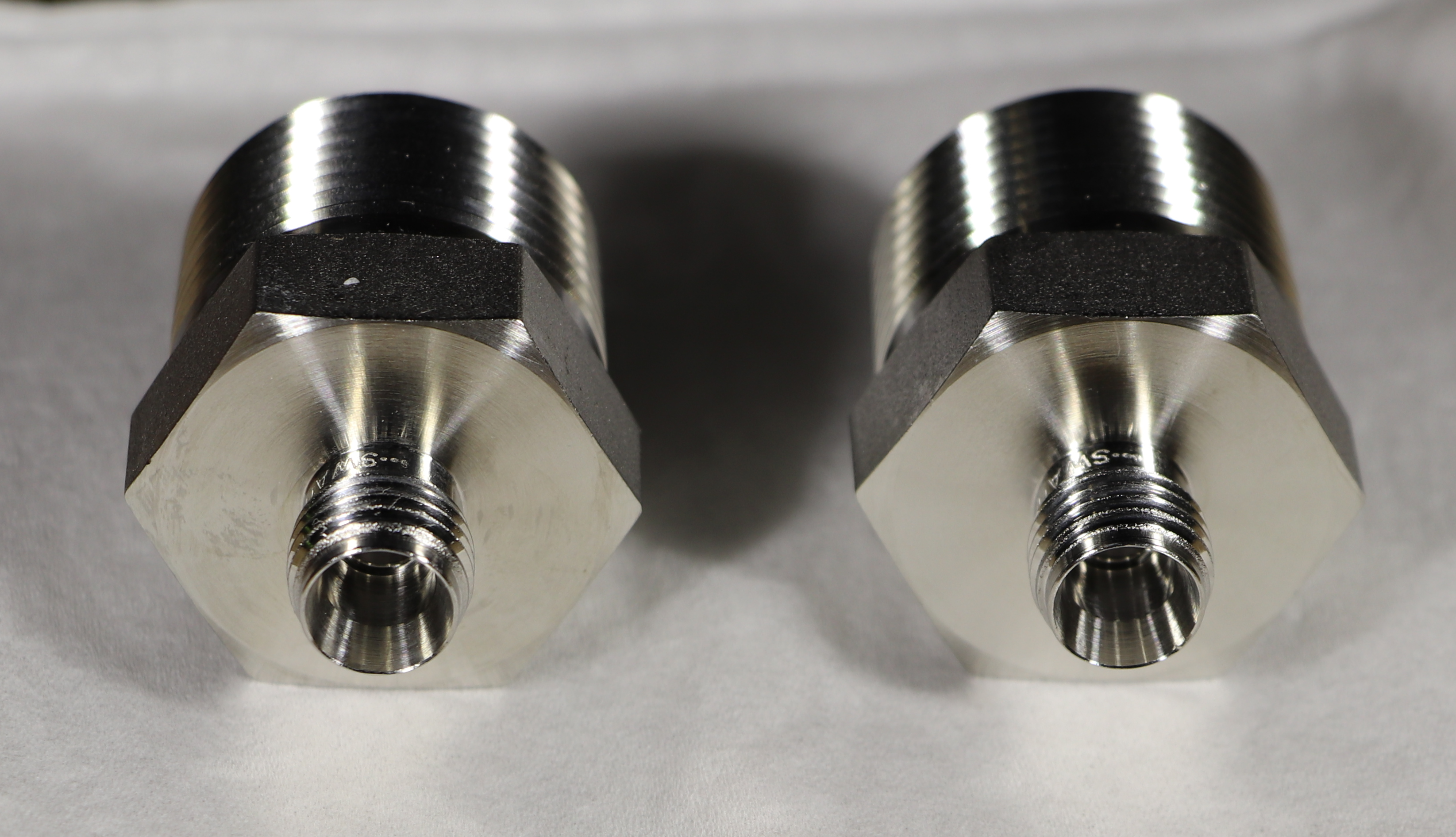 The fitting on the left has not been passivated, the fitting on the right has been passivated. Passivation was performed in 35% nitric acid solution for two hours on the right fitting. The fitting on the left was cleaned with soapy water, ultrasonic cleaned, and rinsed with deionized water.